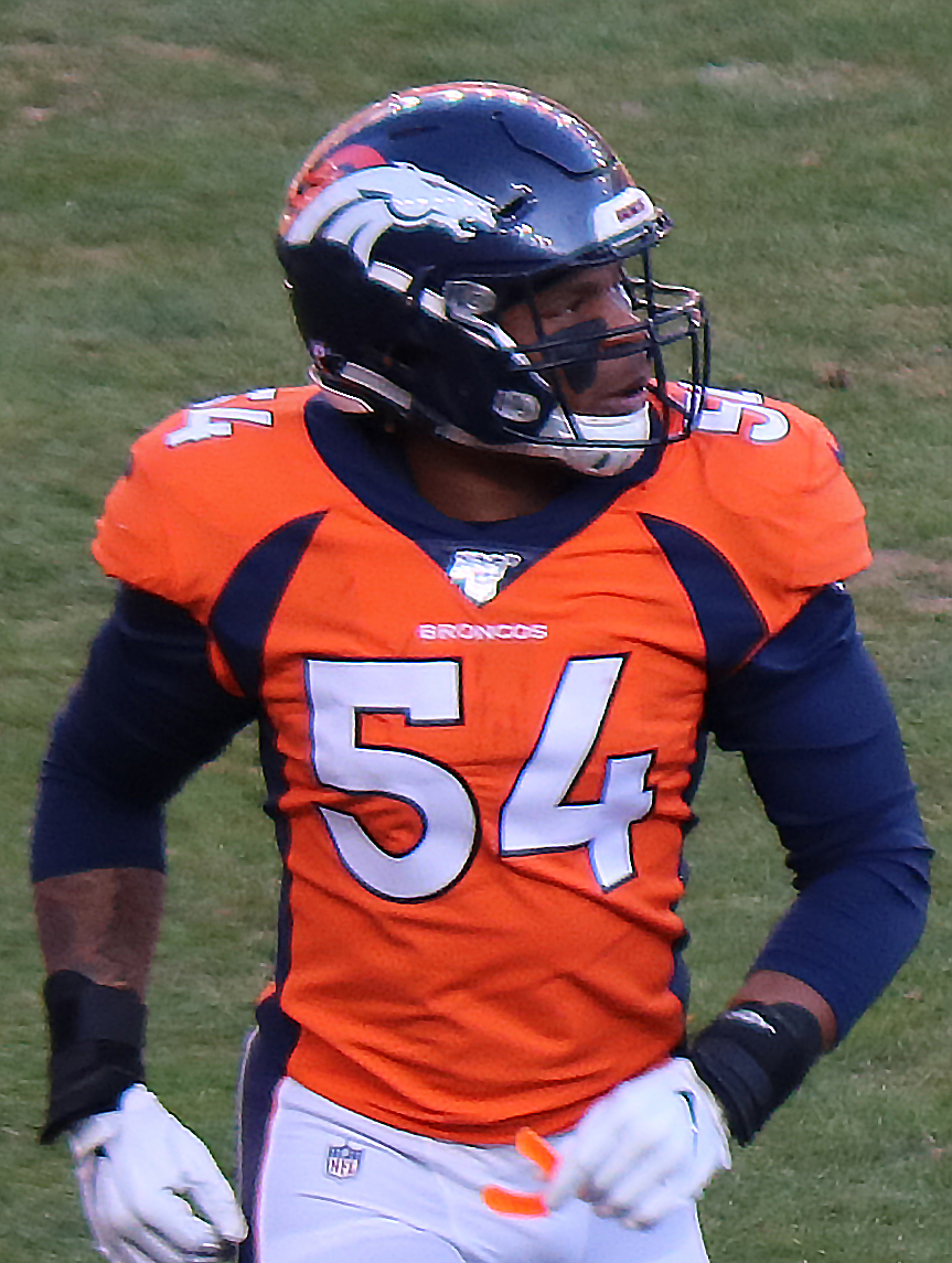 Josh Watson, a National Football League player.